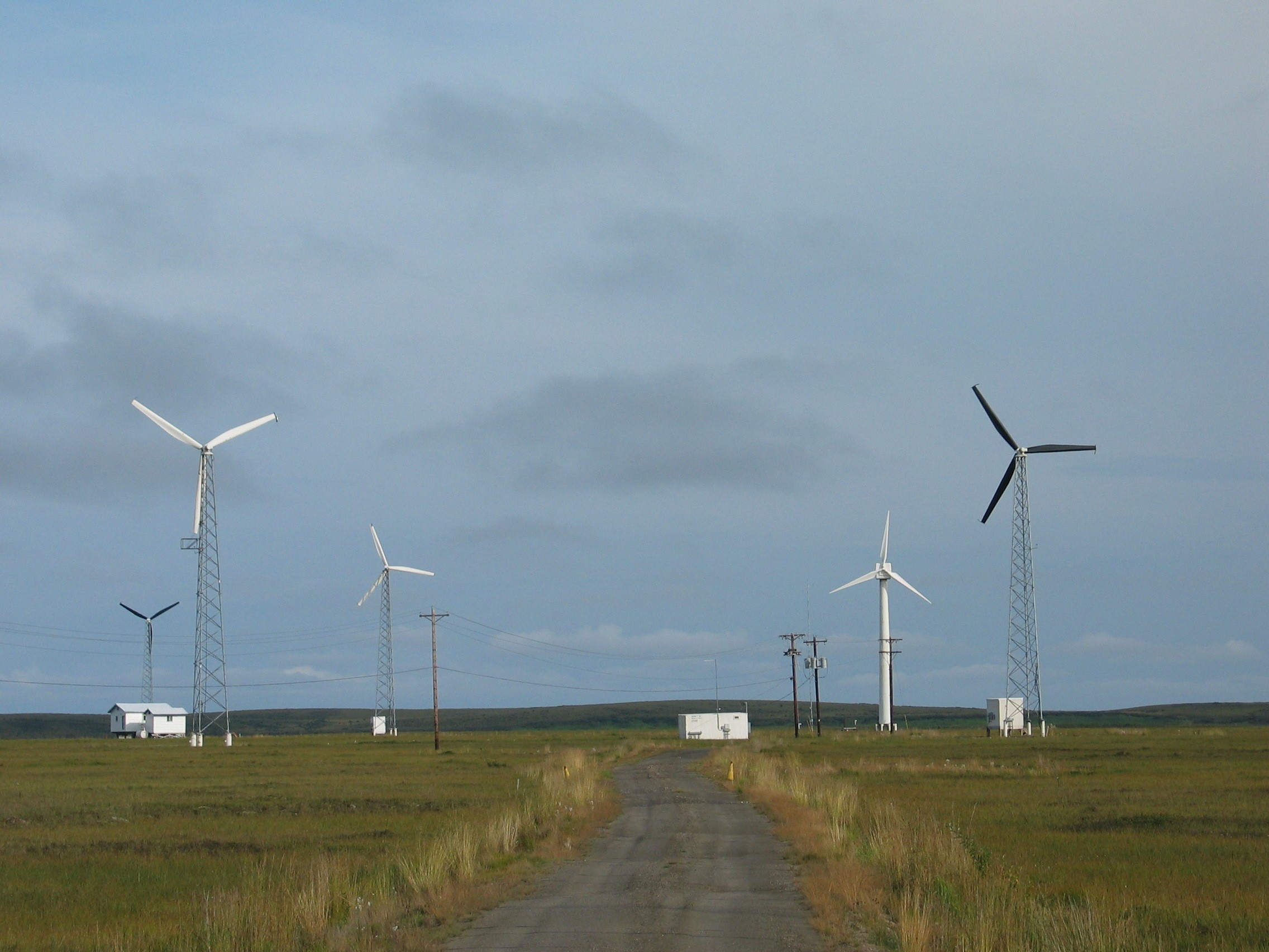 Note "Big Bertha" in the back right...